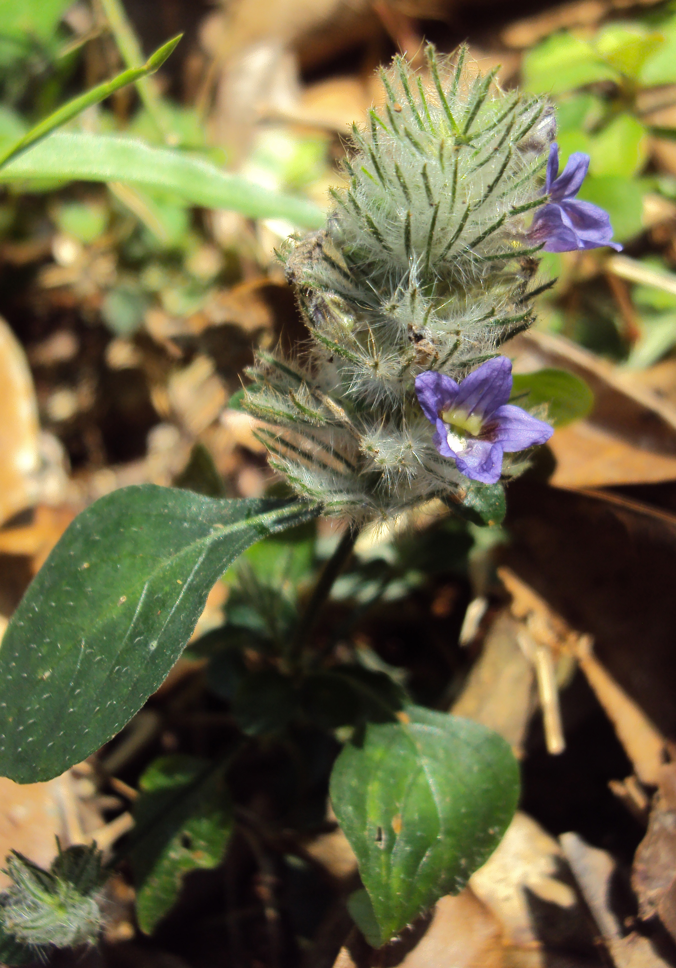 Haplanthodes verticillatus